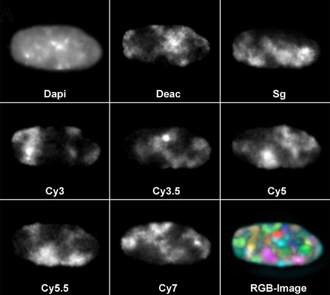 Top: FISH (Fluorescence in situ hybridization) labeling of all 24 different human chromosomes (1 - 22, X, and Y) in a fibroblast nucleus, each with a different combination of in total seven fluorochromes. Shown is a mid-plane of a deconvoluted image stack which was recorded by wide-field microscopy.